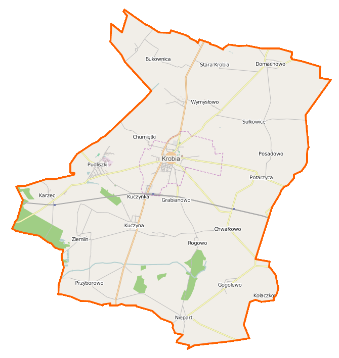 Map of Gmina Krobia, Poland This map of Krobia (gmina) was created from OpenStreetMap project data, collected by the community. This map may be incomplete, and may contain errors. Don't rely solely on it for navigation. Border coordinates51.840716.8678←↕→17.097051.6900